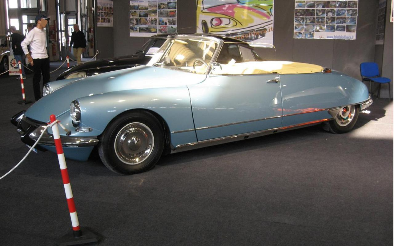 Subject: Citroën DS Cabriolet Mk1 Date:October 26th, 2008 Event: Auto e Moto d'Epoca 2008 Place/Country: Padova, Italy I release all rights in the public domain.